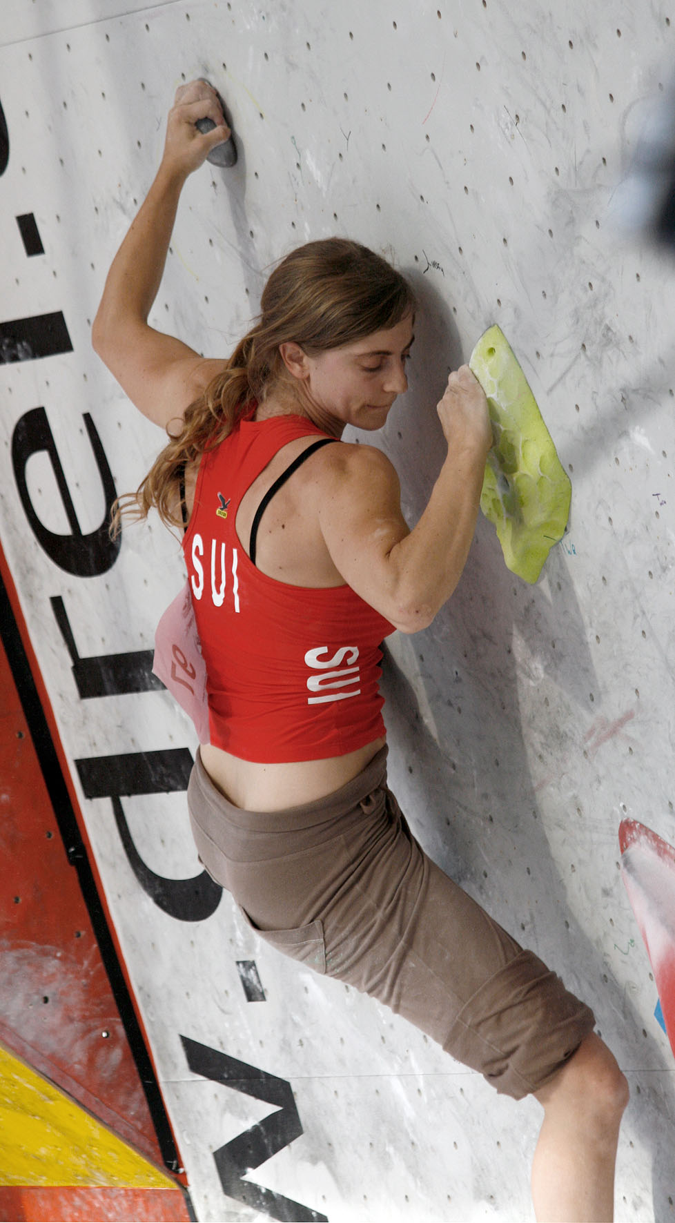 Tabea Schwab during qualifications at the IFSC Boulder Worldcup Vienna 2010.